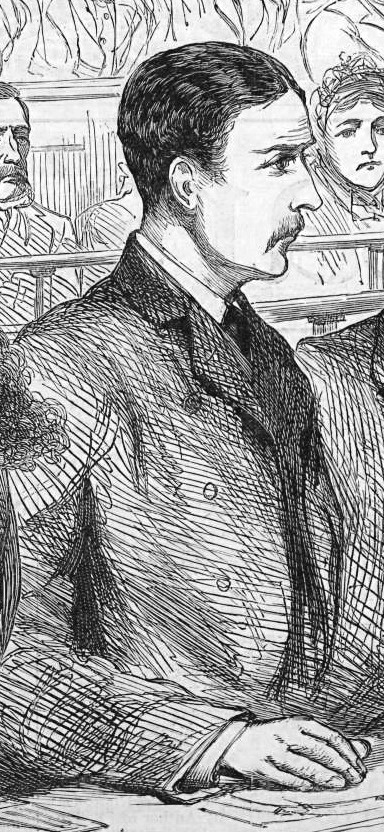 Henry Hyde Champion in court in 1886